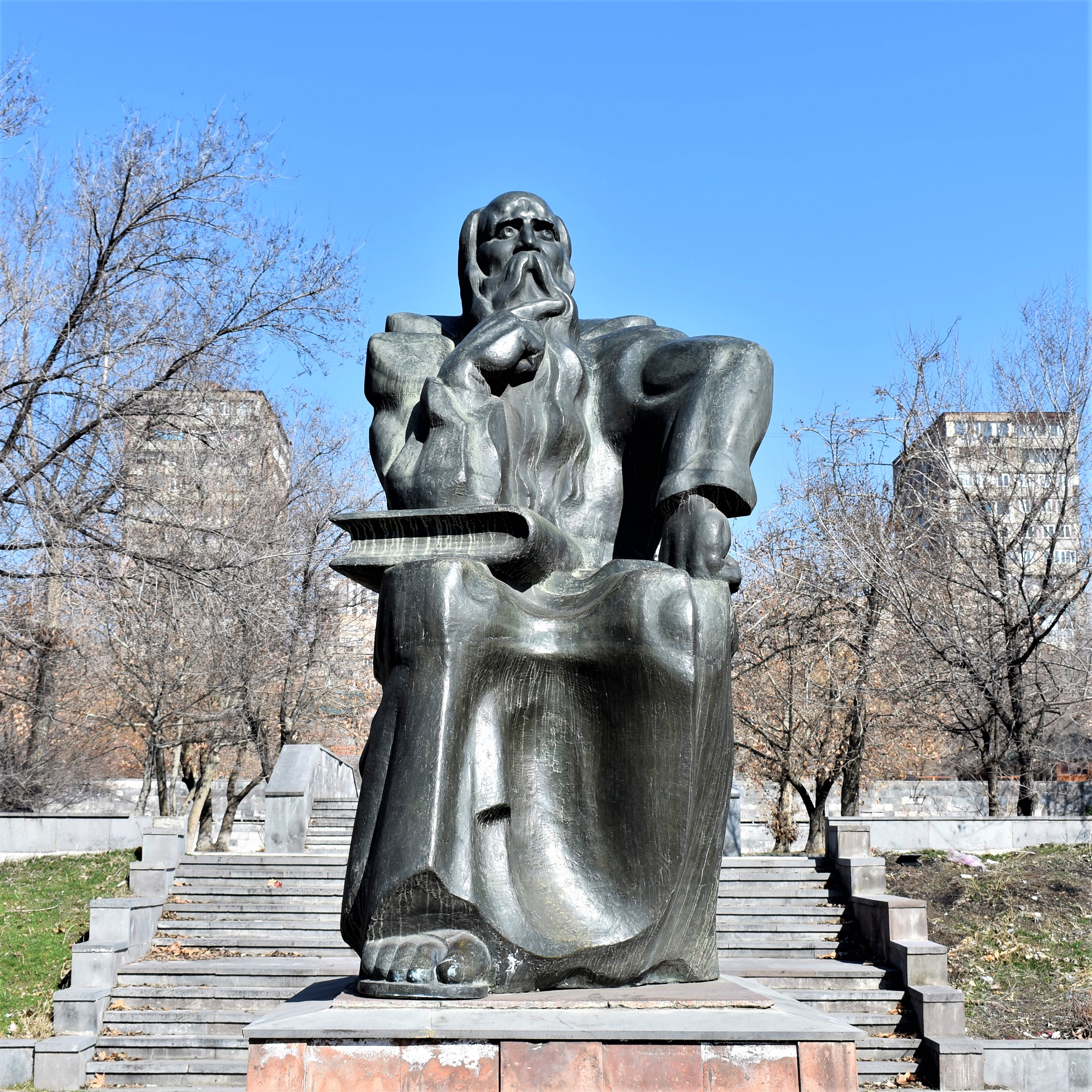 David the InvincibleDavid the Invincible statue